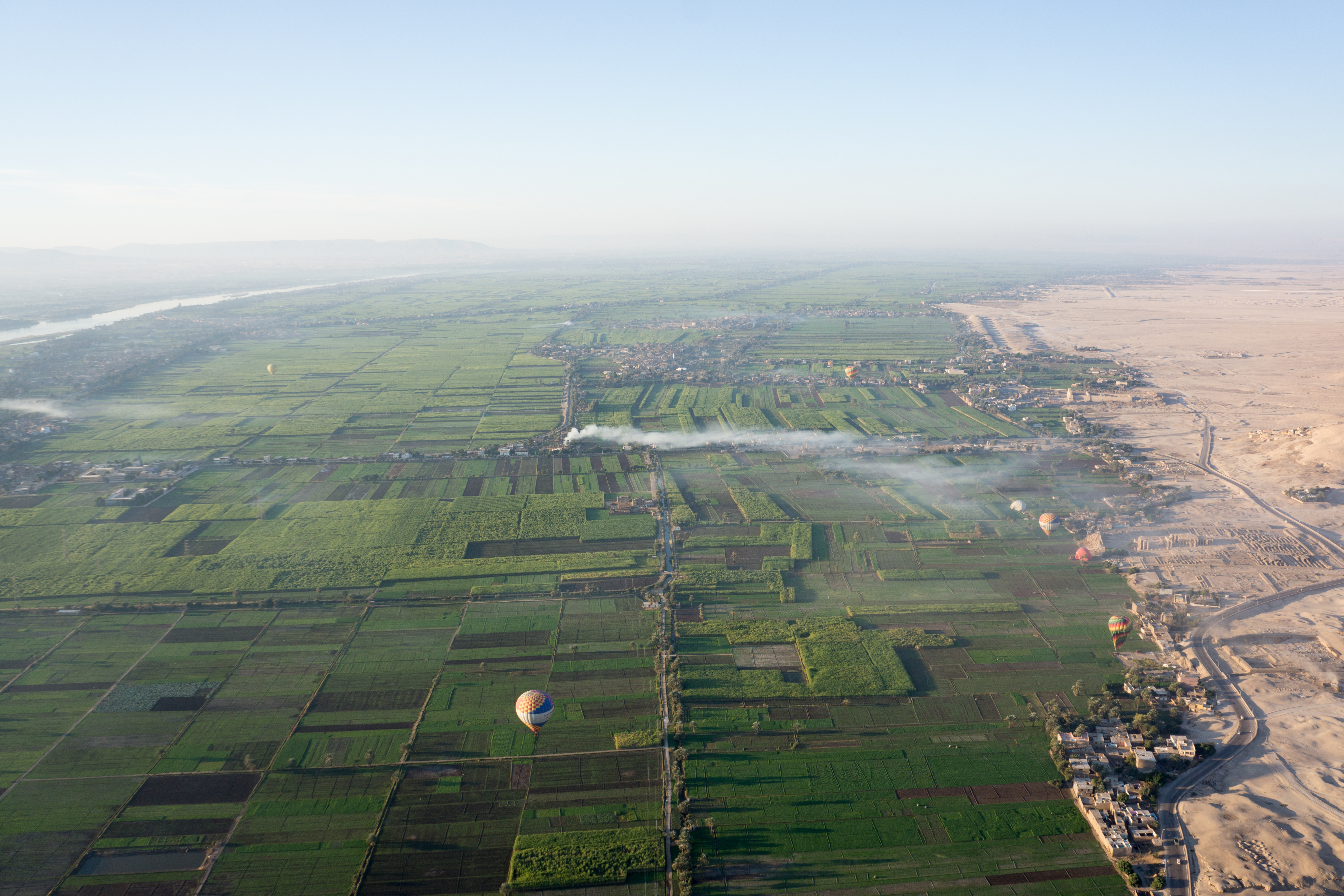 Crop limit in the Nile Valley near Luxor, Egypt